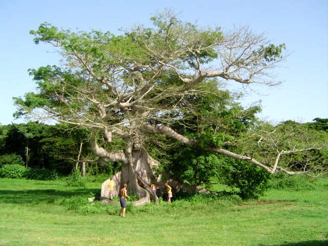 A Ceiba Tree - Vieques, Puerto Rico